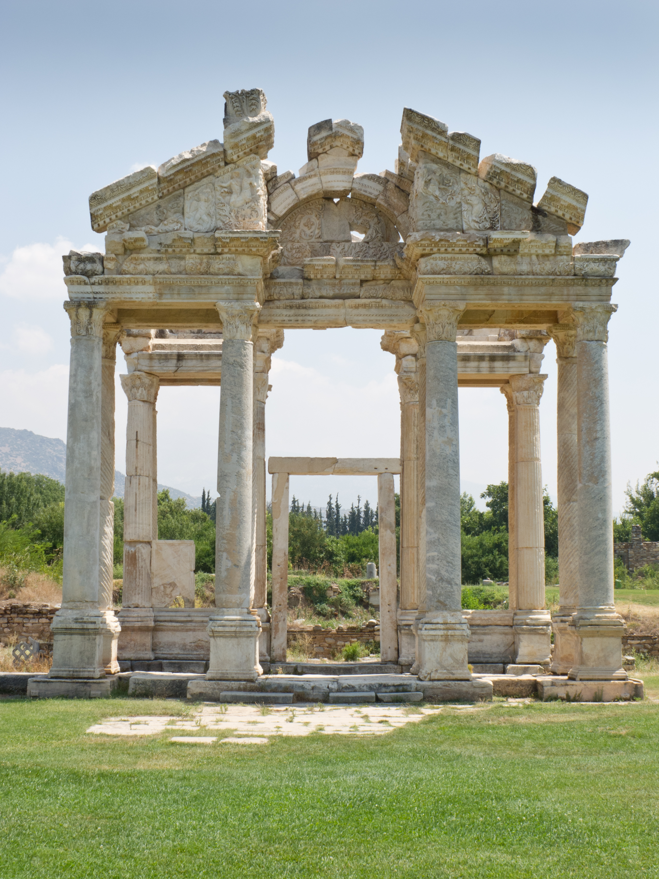 Tetrapylon in Aphrodisias, in modern-day Turkey.